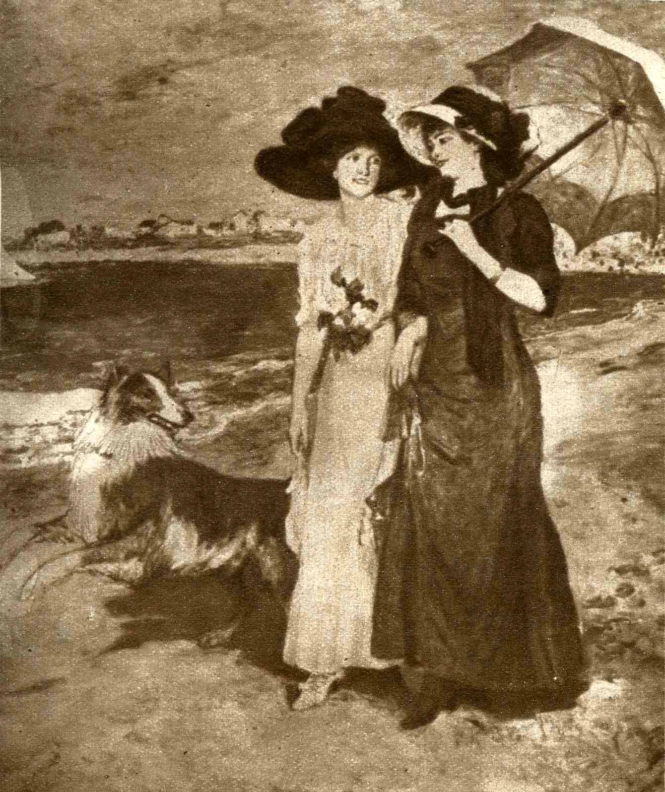 "Promenade sur la plage", a painting by Pierre Gourdault